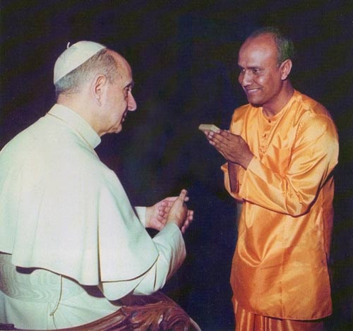 Meeting from Pope Paul VI and Sri Chinmoy in the 70s.